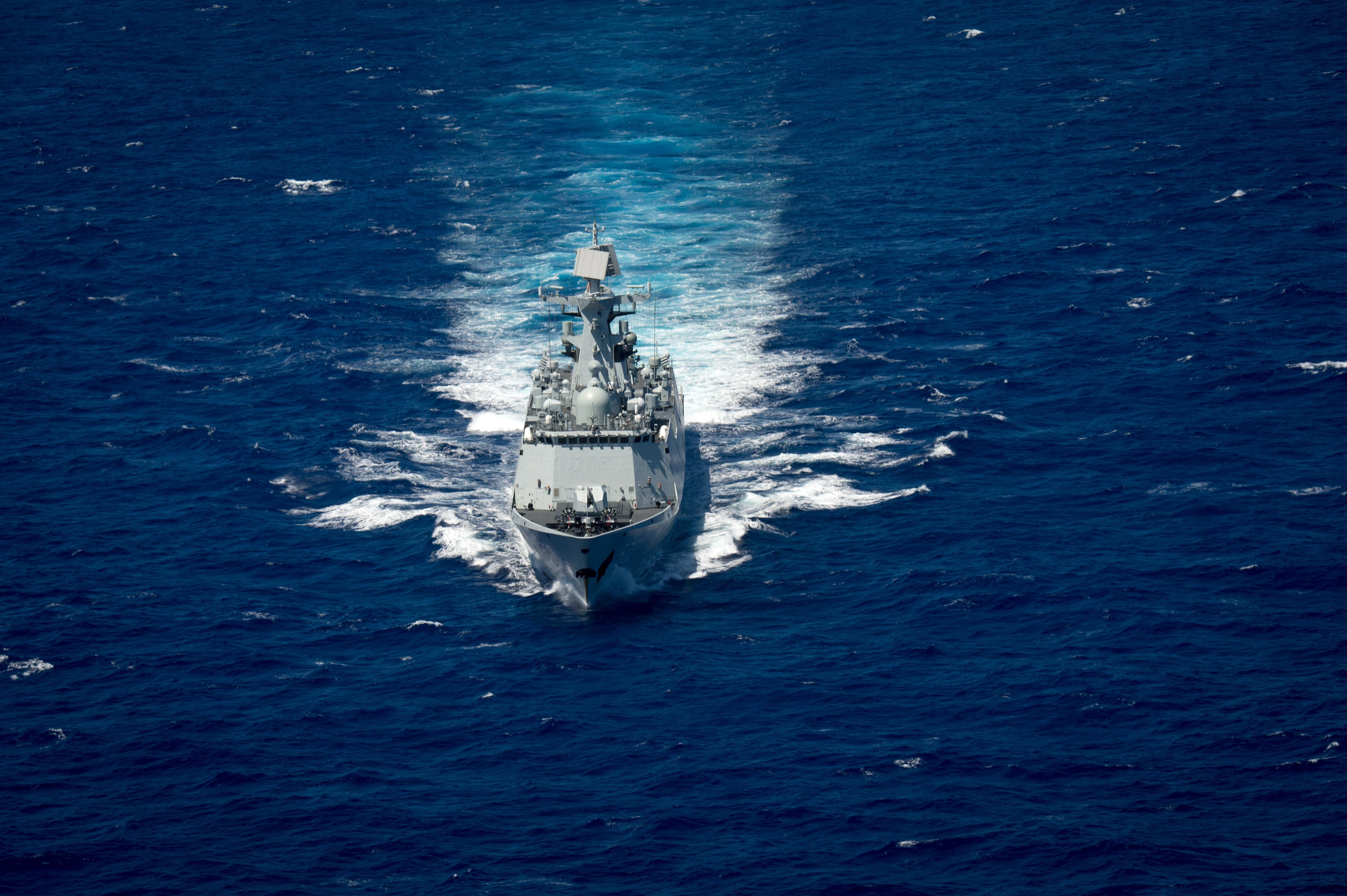 160728-N-SI773-2576 PACIFIC OCEAN (July 28, 2016) Chinese Navy multi-role frigate Hengshui (572) steams in close formation as one of 40 ships and submarines representing 13 international partner nations during Rim of the Pacific 2016. Twenty-six nations, more than 40 ships and submarines, more than 200 aircraft, and 25,000 personnel are participating in RIMPAC from June 30 to Aug. 4, in and around the Hawaiian Islands and Southern California. The world's largest international maritime exercise, RIMPAC provides a unique training opportunity that helps participants foster and sustain the cooperative relationships that are critical to ensuring the safety of sea lanes and security on the world's oceans. RIMPAC 2016 is the 25th exercise in the series that began in 1971. (U.S. Navy Combat Camera photo by Mass Communication Specialist 1st Class Ace Rheaume/Released) Unit: Commander, U.S. 3rd Fleet